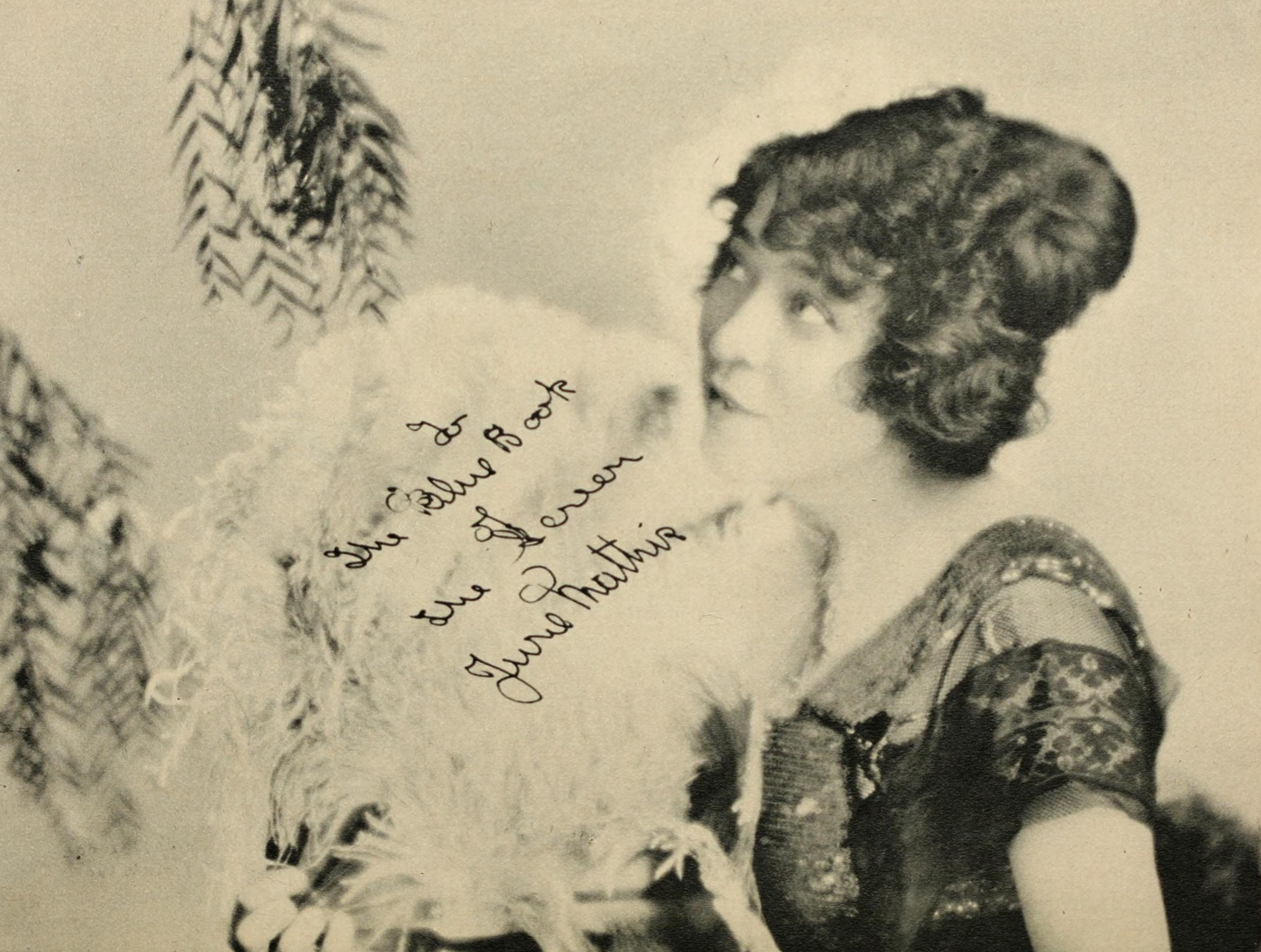 Photographer credited as Hoover Art Co.